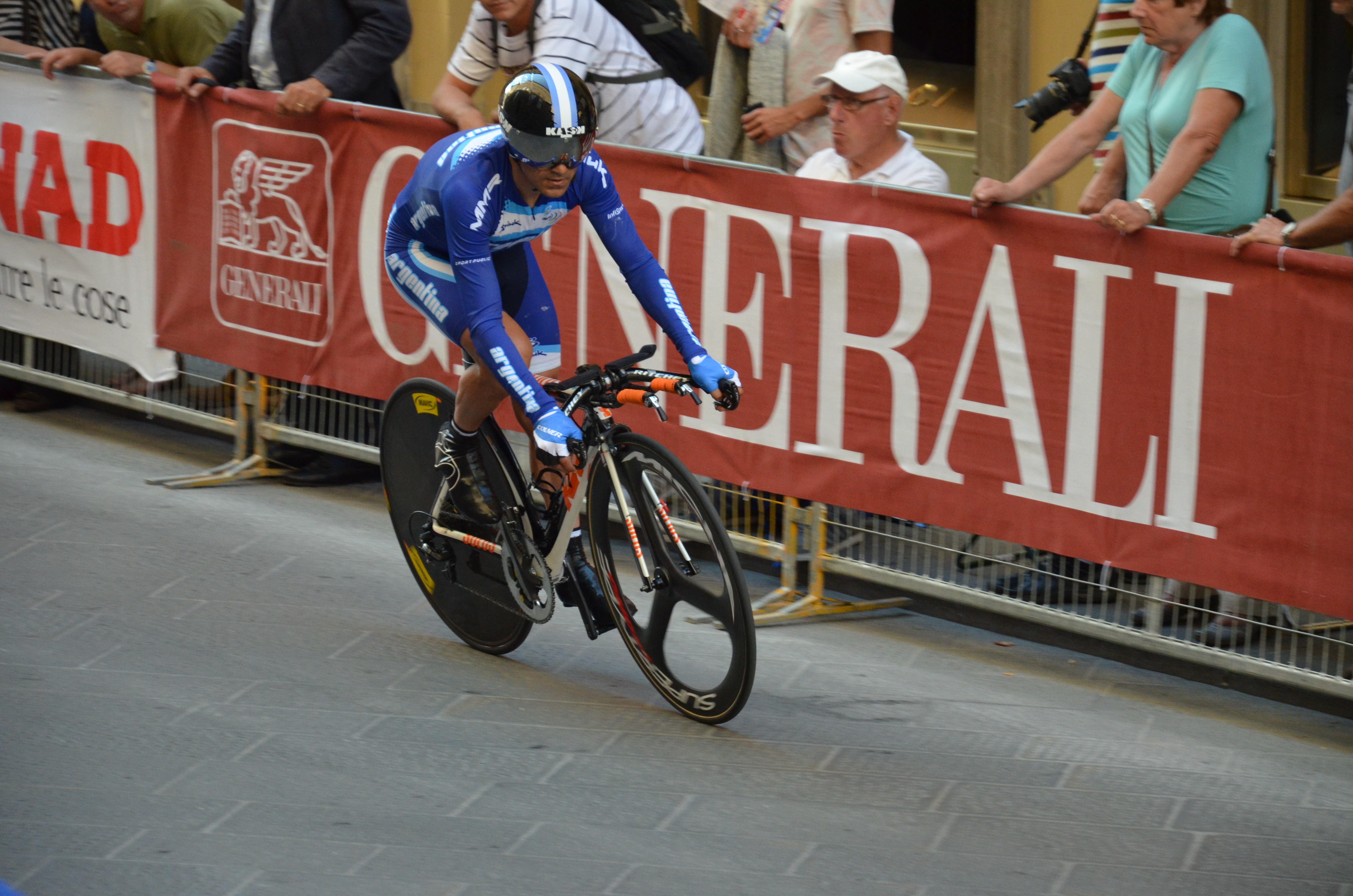 Bikers from Argentina